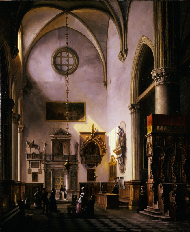 Dated 1857 and probably executed for the annual exhibition at the Venice Royal Academy of Fine Arts or for the similar event at the Naples Royal Institute of Fine Arts, the work depicts the right transept of the Venetian church of Santa Maria Gloriosa dei Frari. The painter reproduces all the architectural and sculptural elements of the interior in elaborate detail, including the equestrian monument to the condottiere Paolo Savelli located on the left-hand side of the door to the sacristy. The interior perspective view, here enlivened by groups of praying figures, was a genre that Abbati had favoured since he was a student at the Naples Academy of Fine Arts. The artist’s works were soon noticed by Francesco I of Bourbon, and in 1833 he became court painter to the king’s daughter Carolina, better known as the Duchess of Berry, after which he left Naples and moved to Venice, in 1844. Here he participated for the first time in the exhibition at the Academy of Fine Arts, presenting the painting Interior of the Minutolo Chapel in Naples Cathedral (1844, Treviso, Museo Civico Luigi Bailo) in which the composition and perspective angle are similar to those in the painting in the Cariplo Collection. In the following years, Abbati alternated views of Neapolitan monuments with interiors of Venetian churches, and the church represented in this interior view was chosen as the subject for the picture Interior of the Church of S. Maria Gloriosa dei Frari in Venice exhibited in Naples in 1862, some years after the artist returned from Venice.